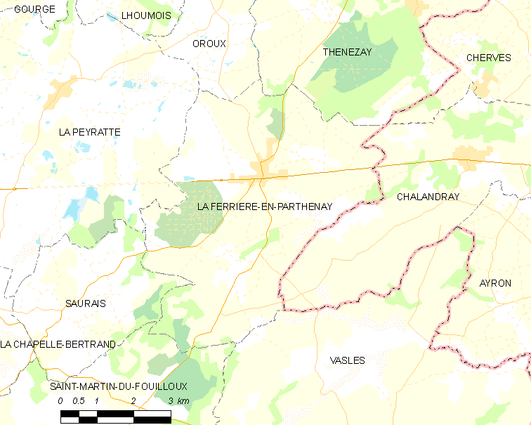 Map of French municipality La Ferrière-en-Parthenay